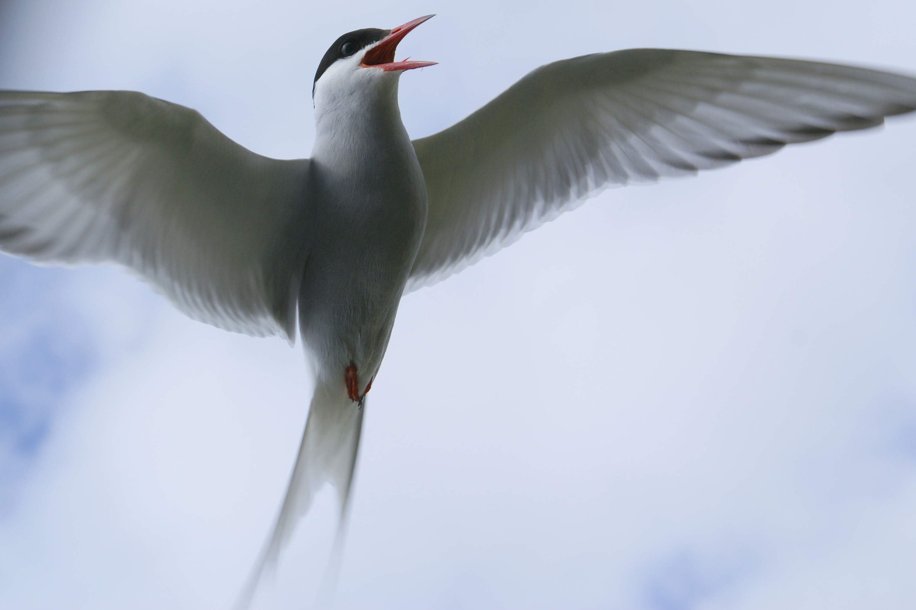 The arctic tern (kría) in attacking mode to protect her nest.